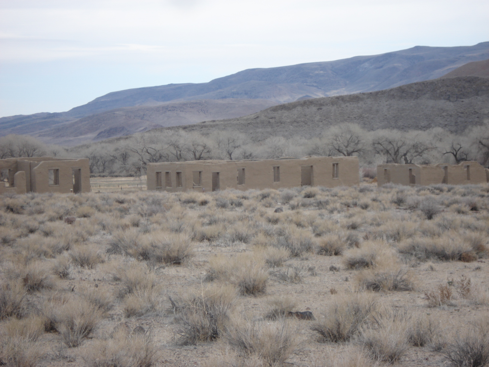 Ruins at Fort Churchill State Historic Park, Nevada United States